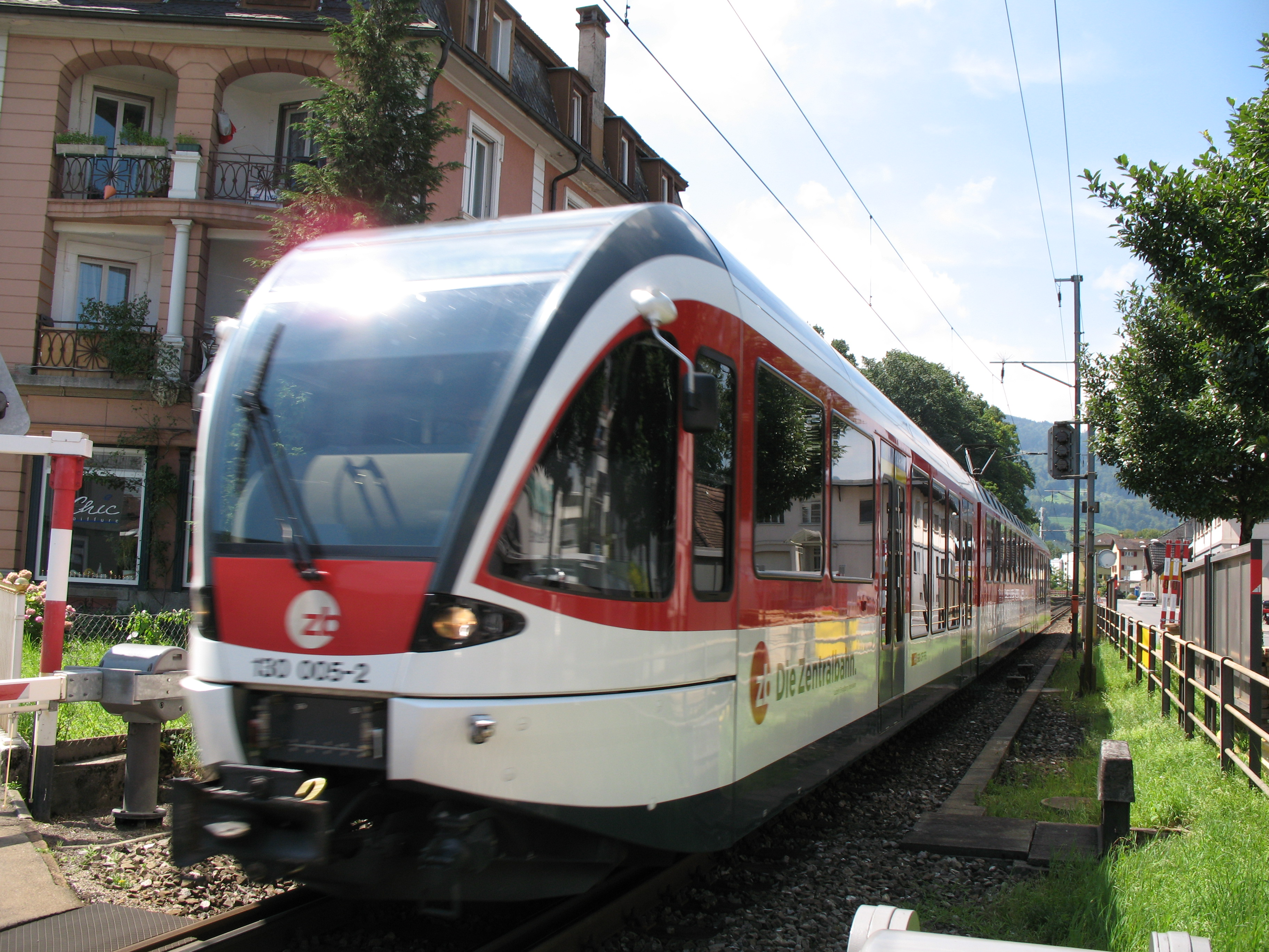 Central Railway SPATZ crossing Eichwald Street at Upper Ground Street, Luzern, Switzerland